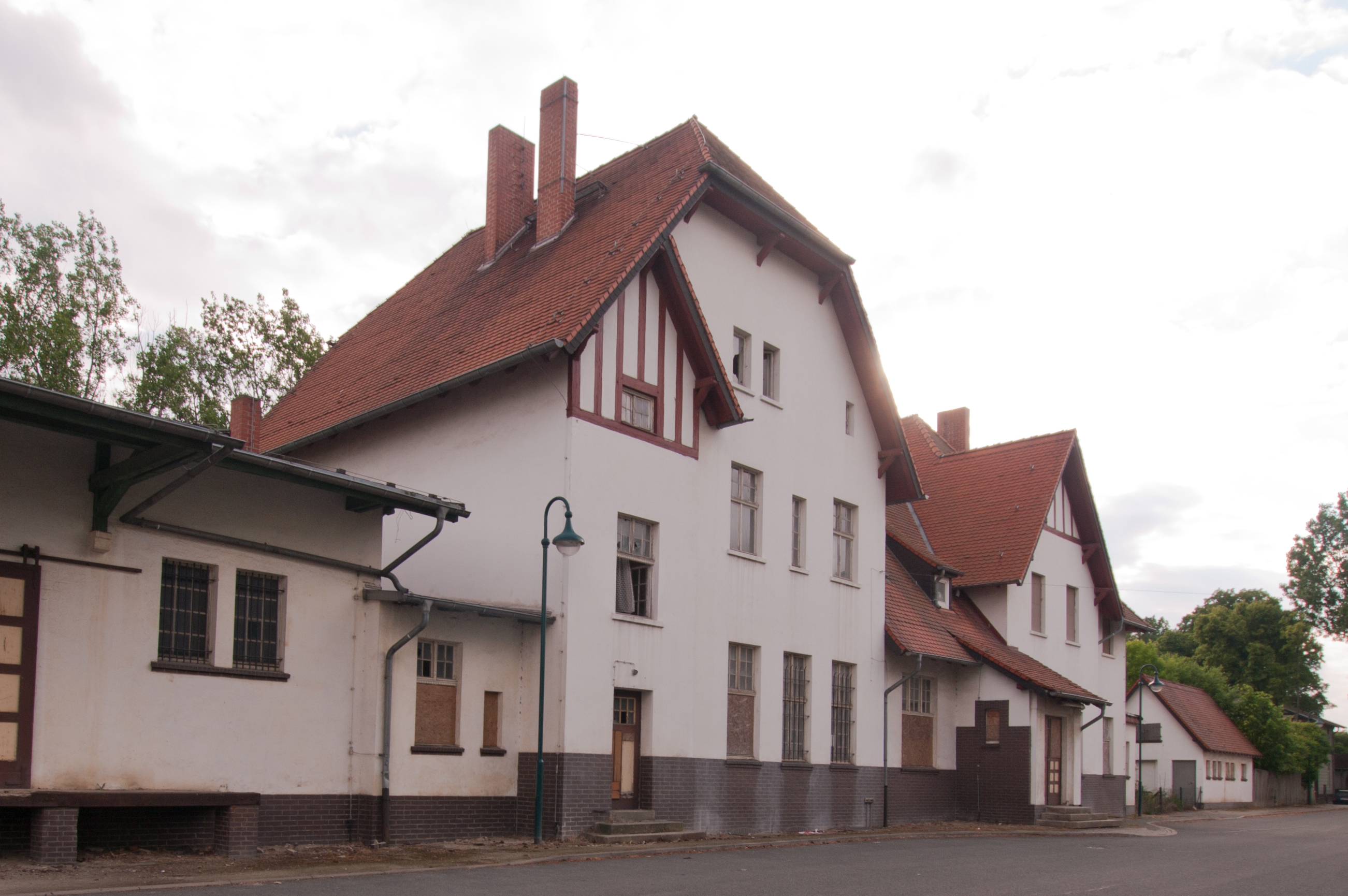 Old building (not in use anymore) of the railway station Hedersleben-Wetterstedt, Sachsen-Anhalt, Germany.